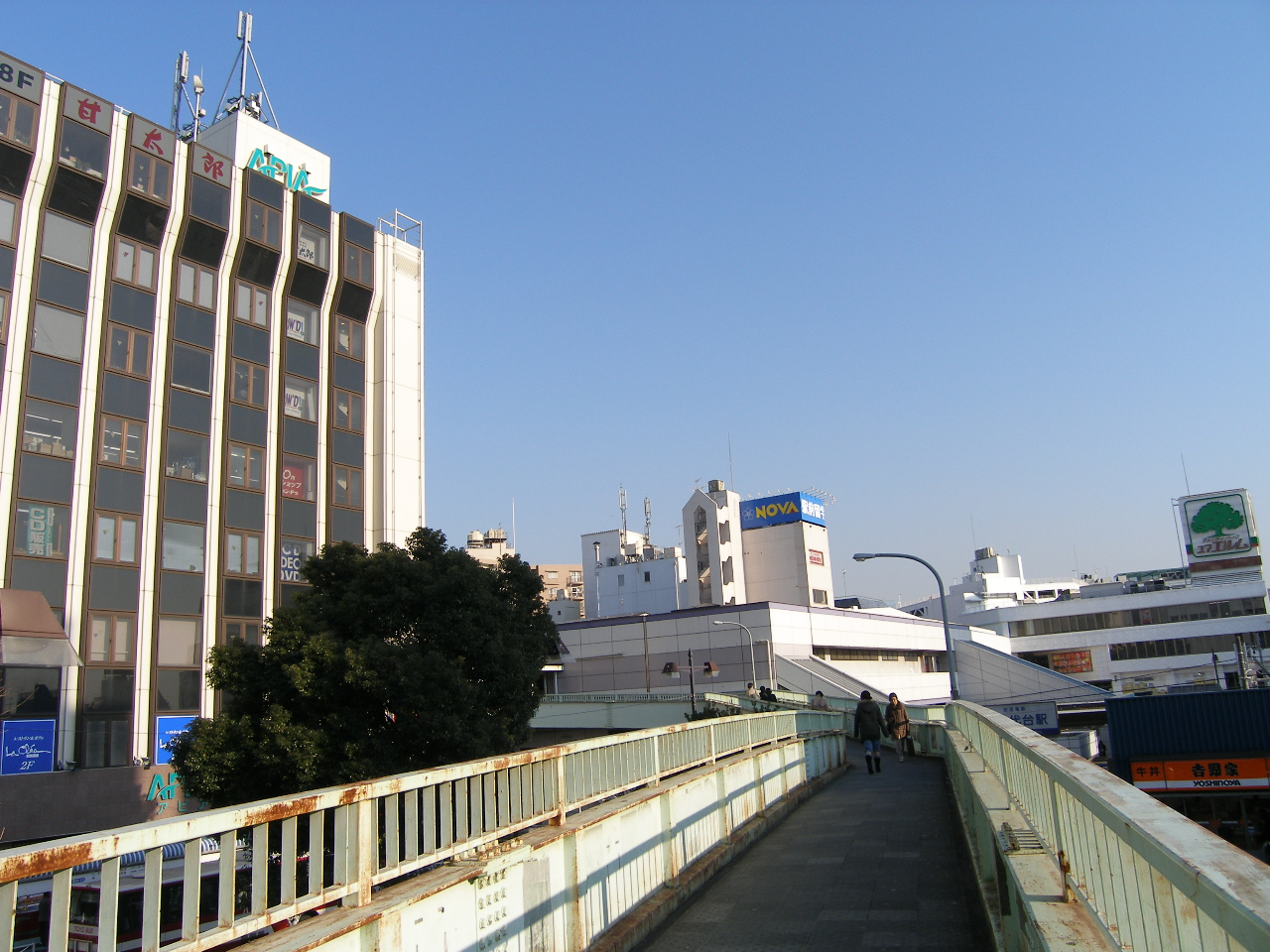 Yachiyodai Station west entrance and station plaza